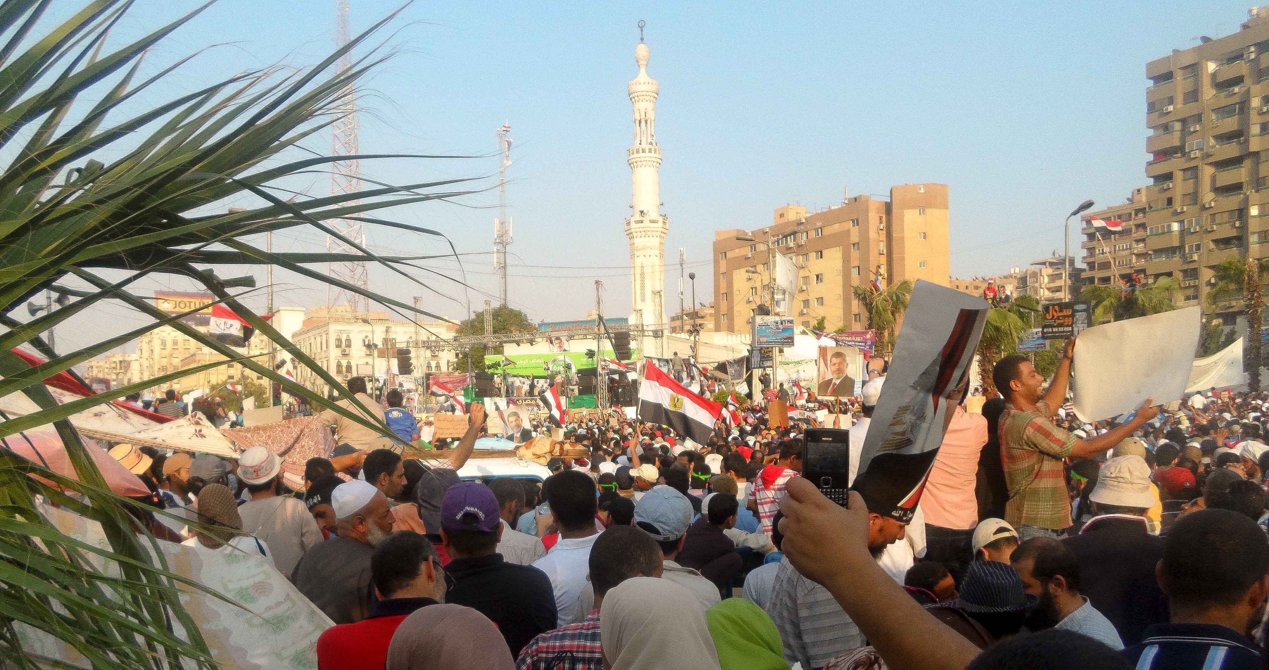 Rabaa Aladawa protests